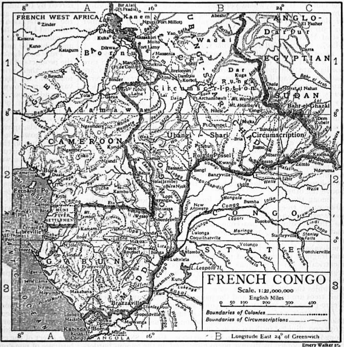 A map of the French Congo, including Rio Muni, Fernando Po, and the German Cameroon c. 1911